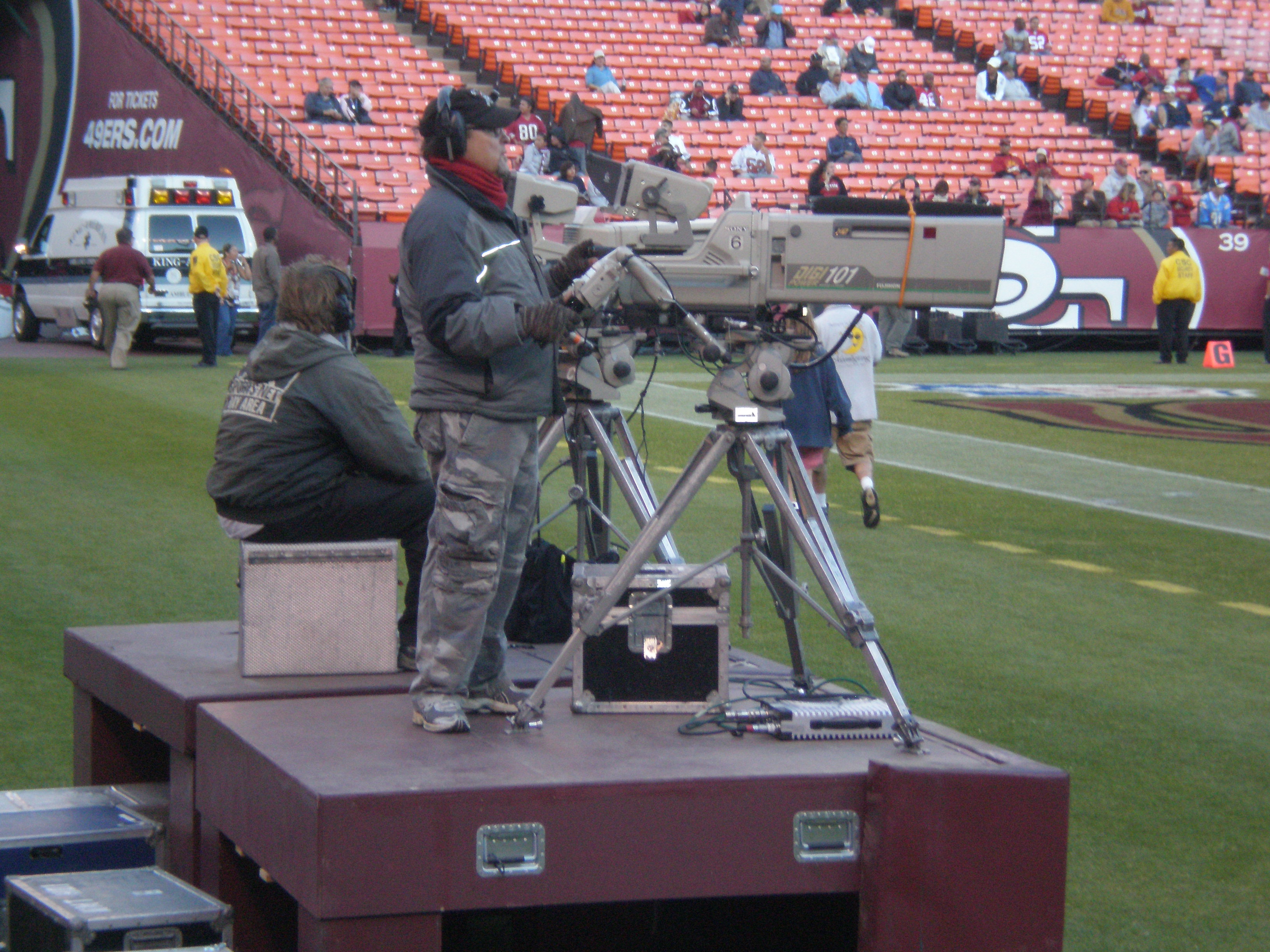 A camera crew filming the final game of the 2008 preseason between the San Diego Chargers and the San Francisco 49ers at Candlestick Park in San Francisco, California.